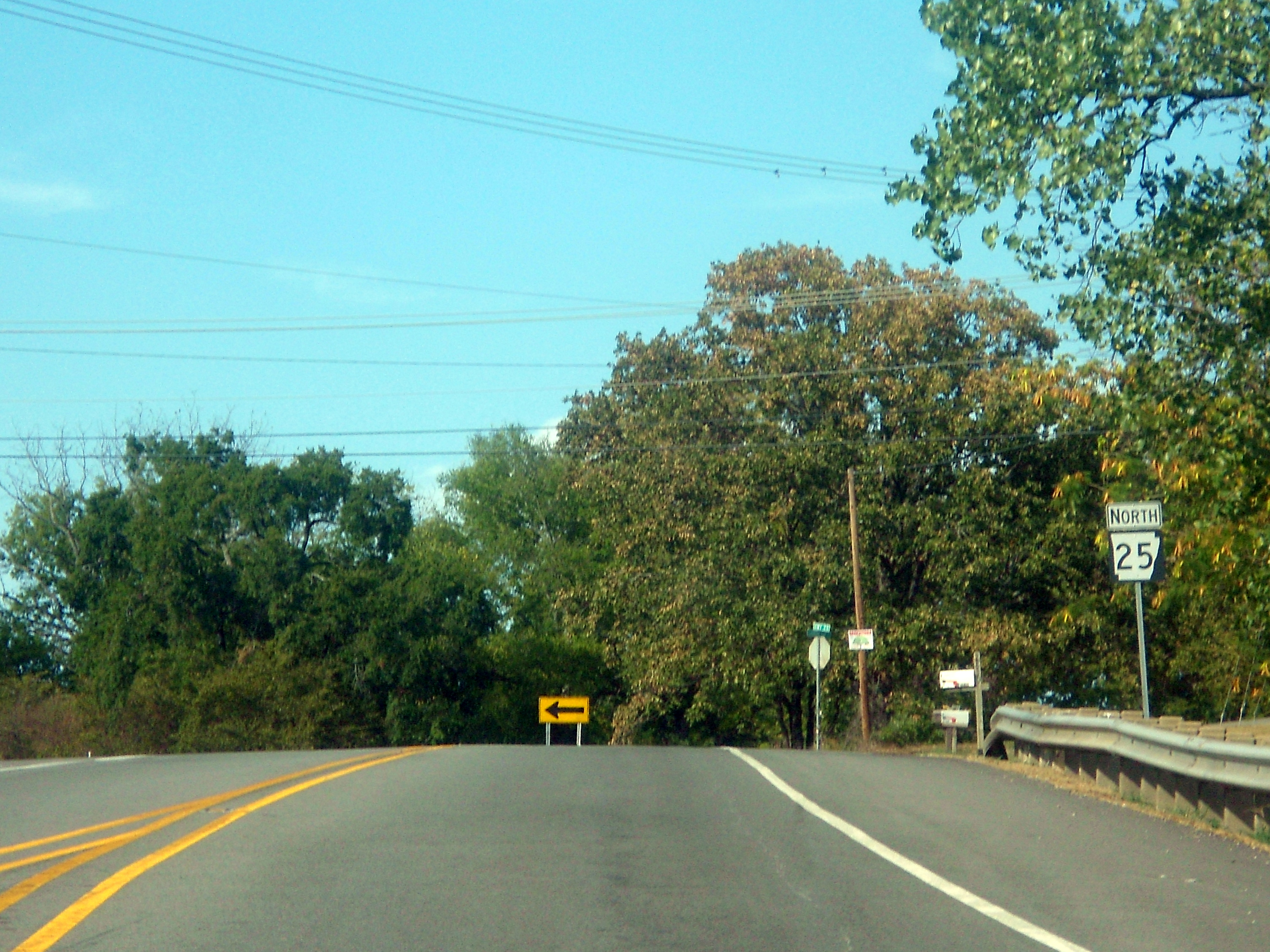 Highway 25 in Conway, Faulkner County, Arkansas just north of Conway shortly after I-40 junction.